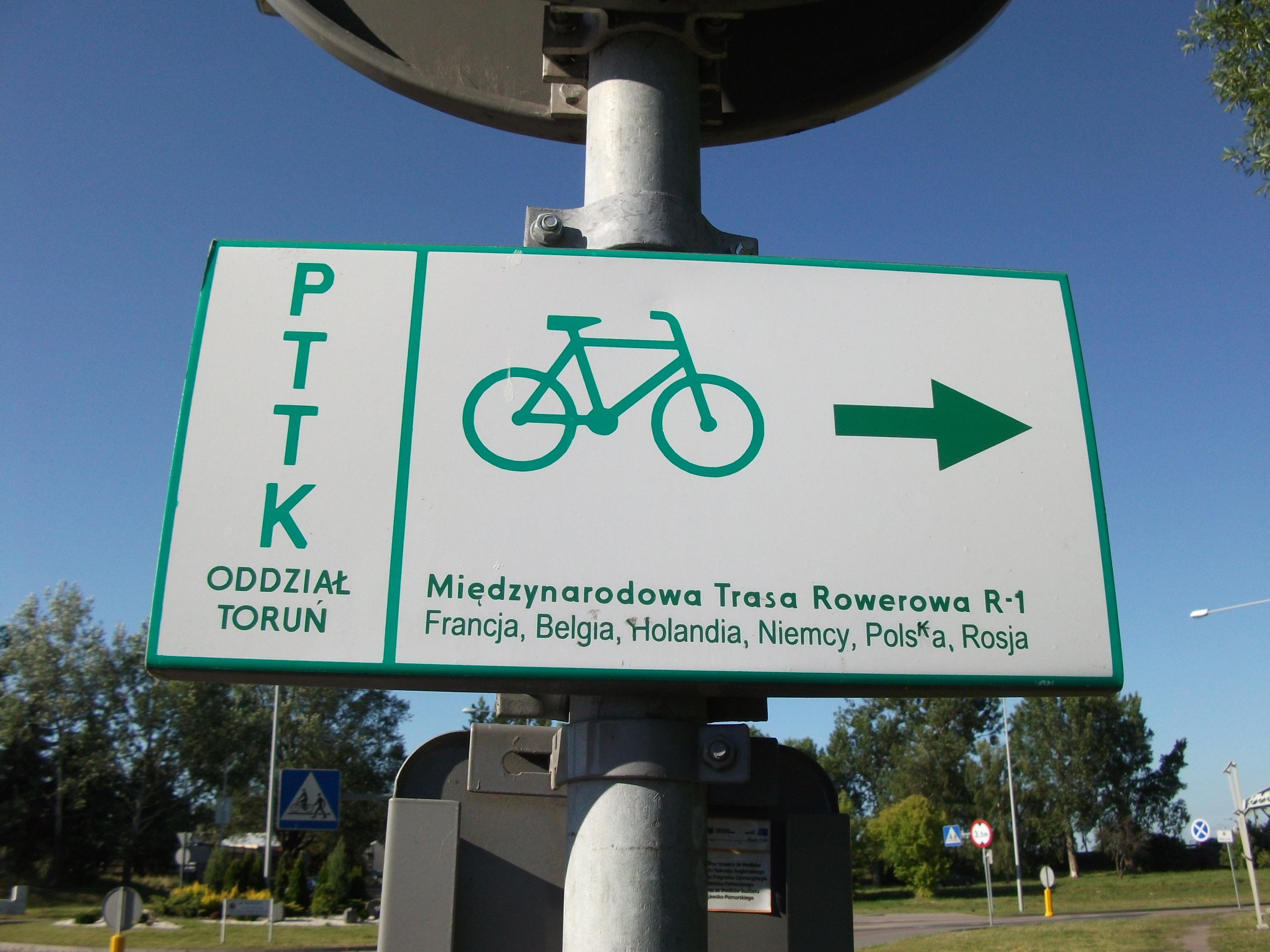 International Bicycle Route in Grudziadz